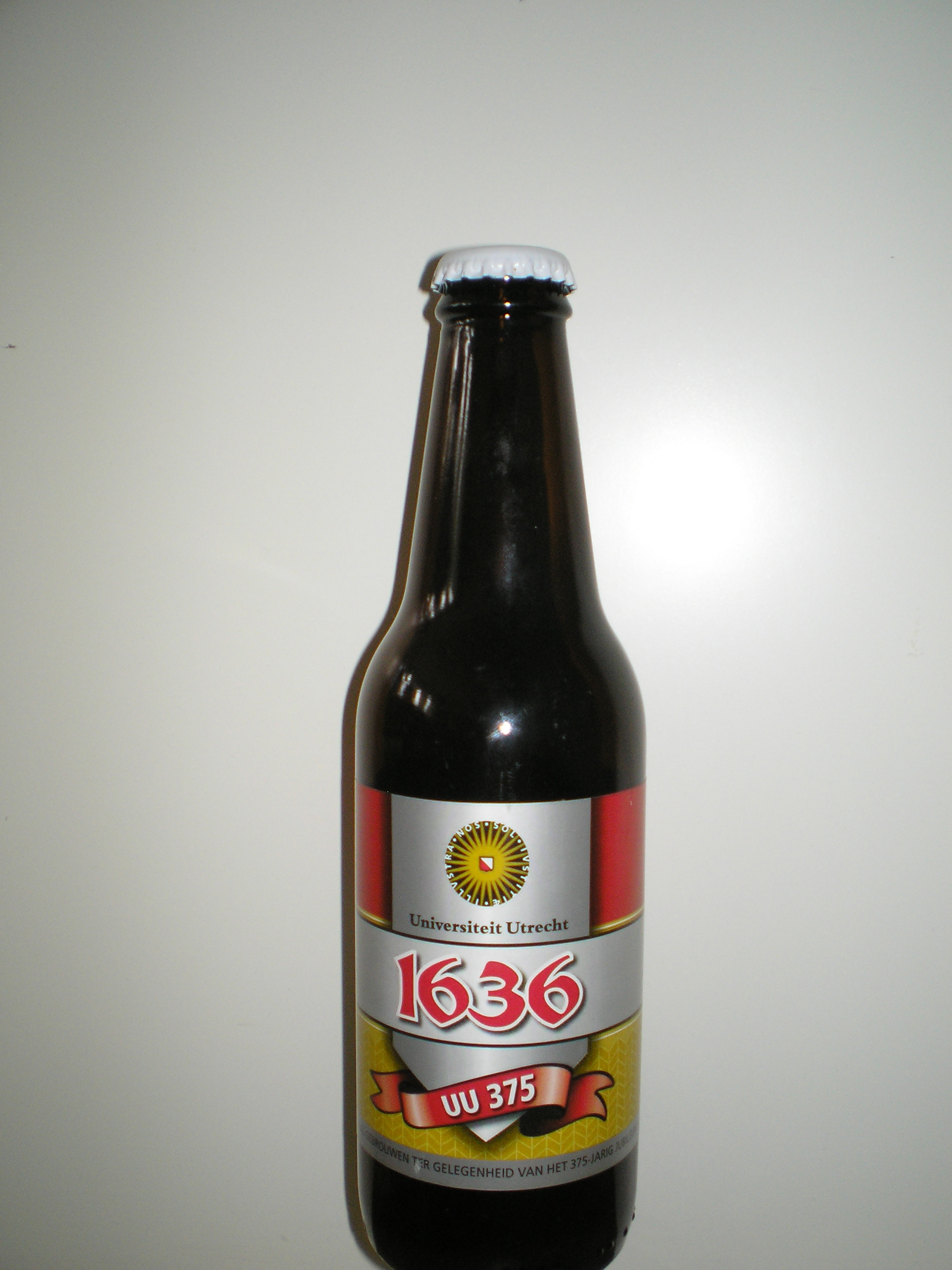 De Leckere pilsener to celebrate 375 years of the UU (Utrecht University) was founded in 1636 in the Netherlands